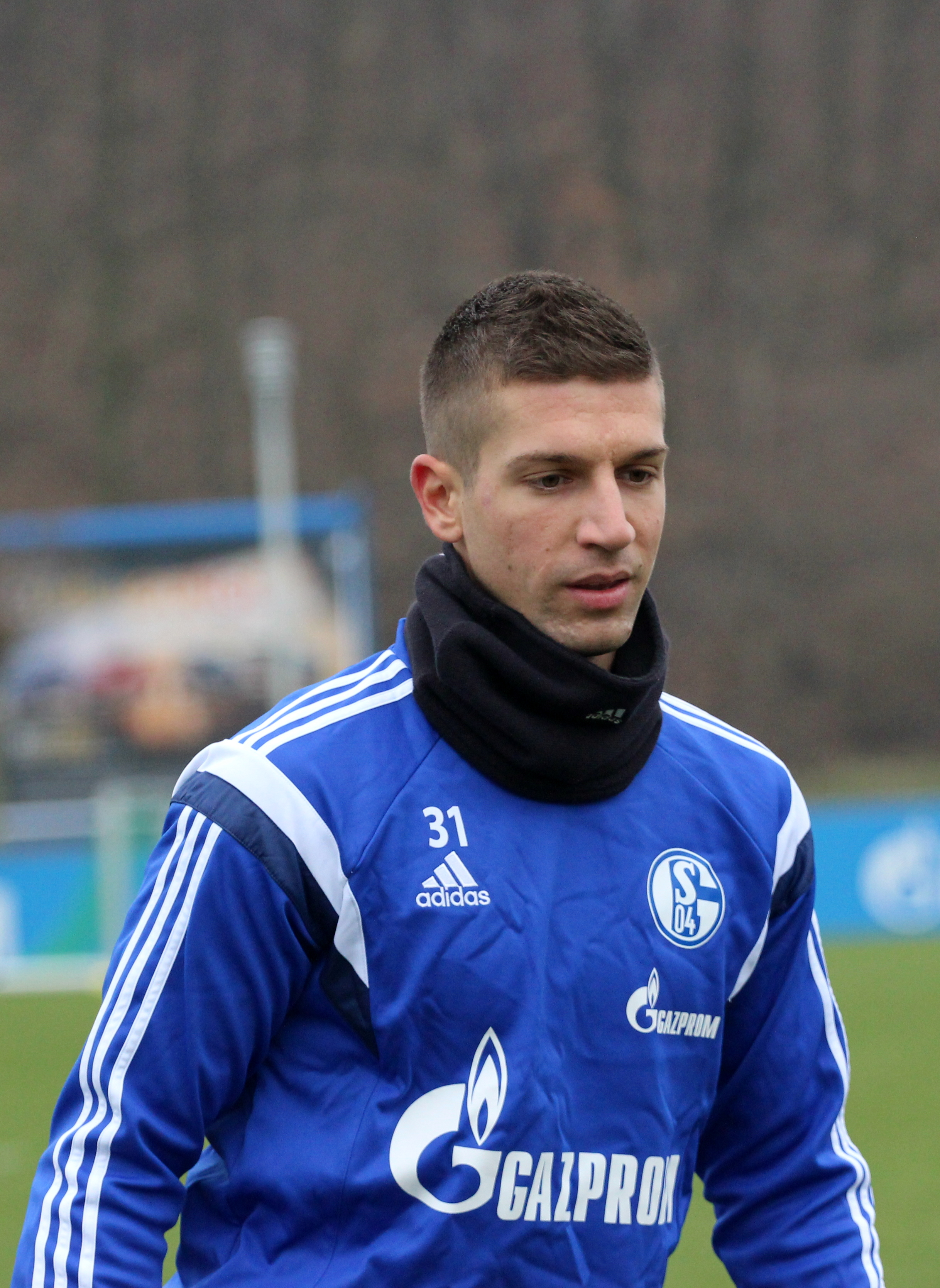 Matija Nastasić in training with FC Schalke 04.